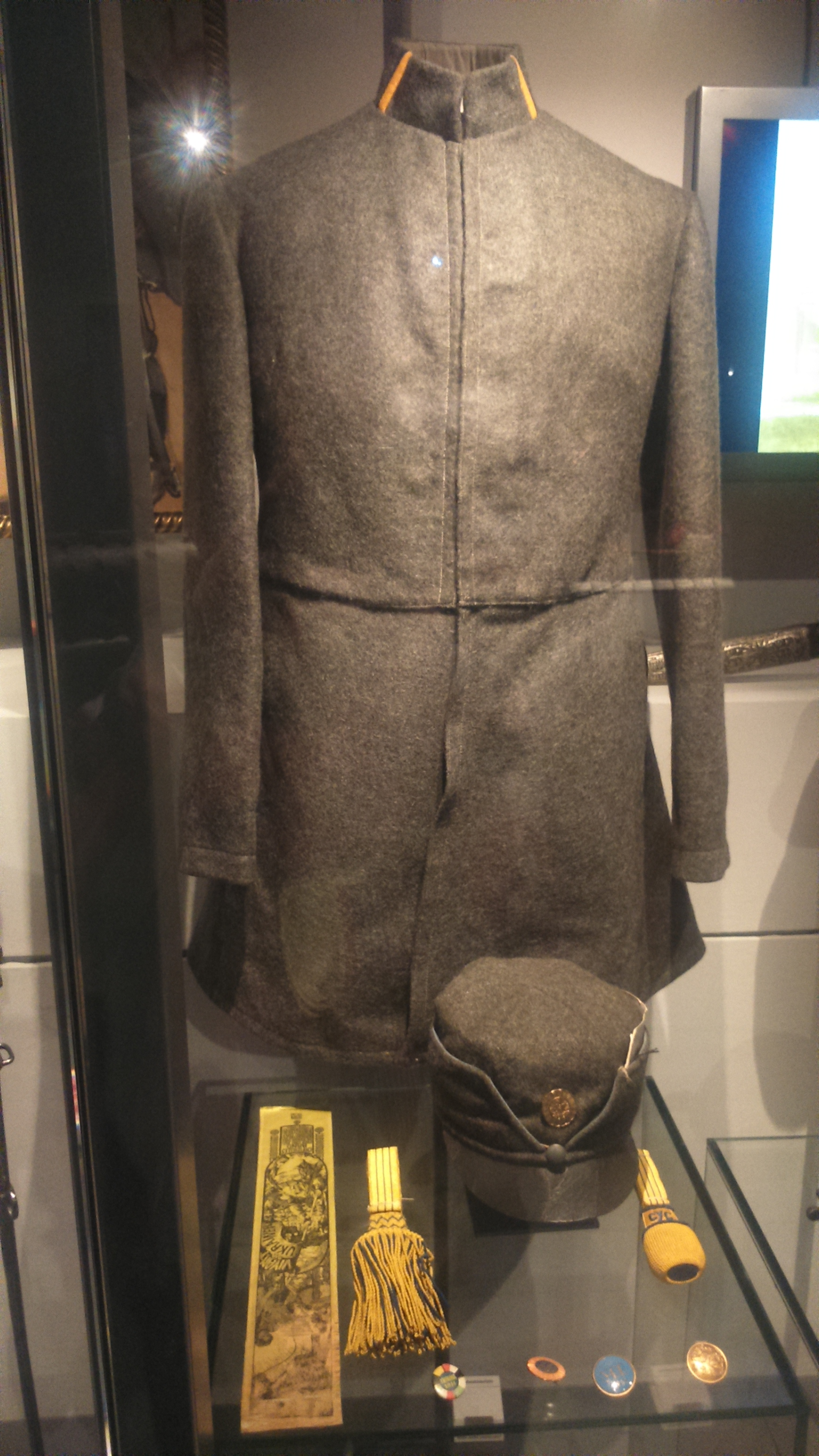 Jacket (Żupan) from the prototype of Ukrainian Legion Uniform in Vienna Museum of Military History.